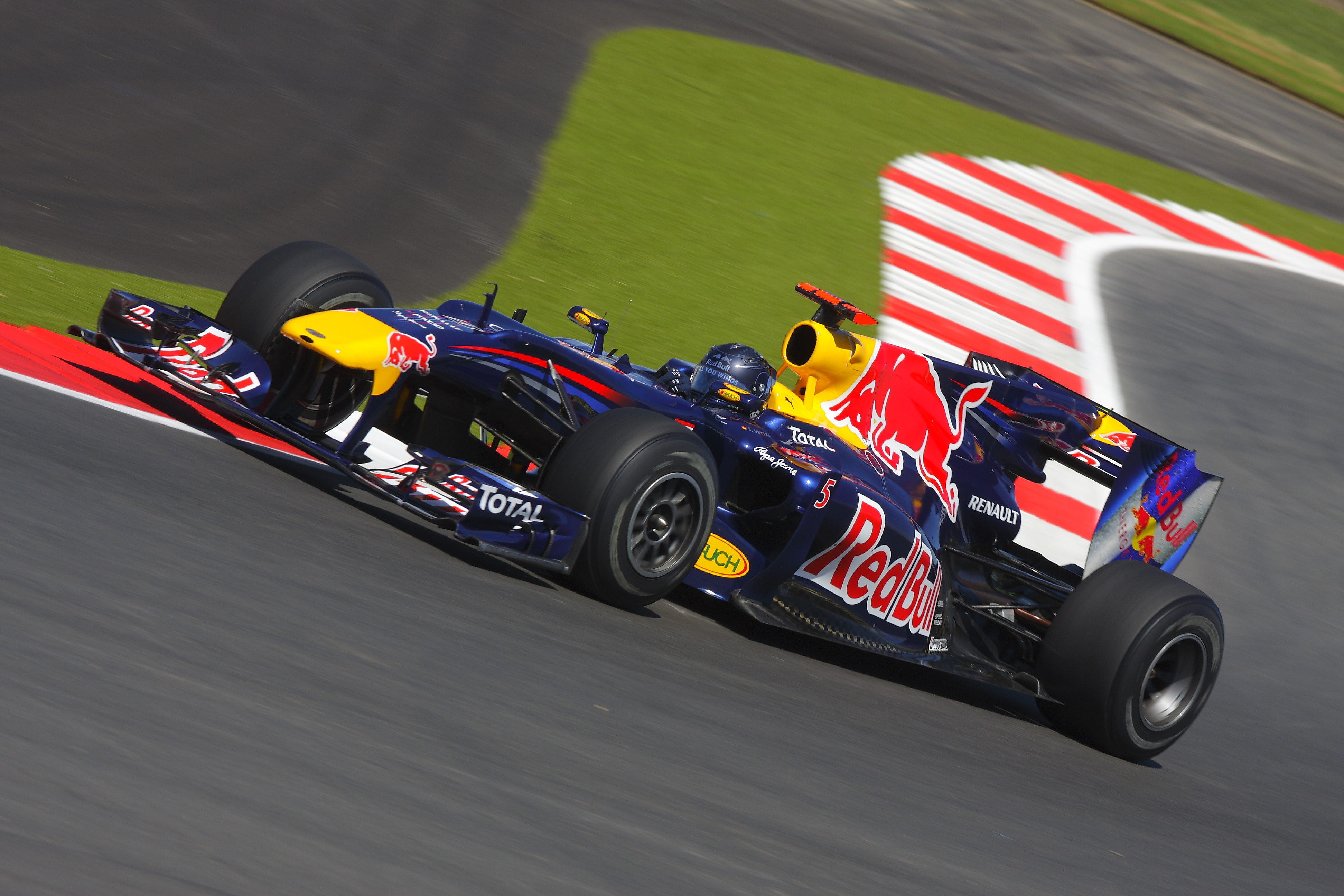 Sebastian Vettel driving for Red Bull Racing at the 2010 British Grand Prix. Photographer: Andrew Hoskins.